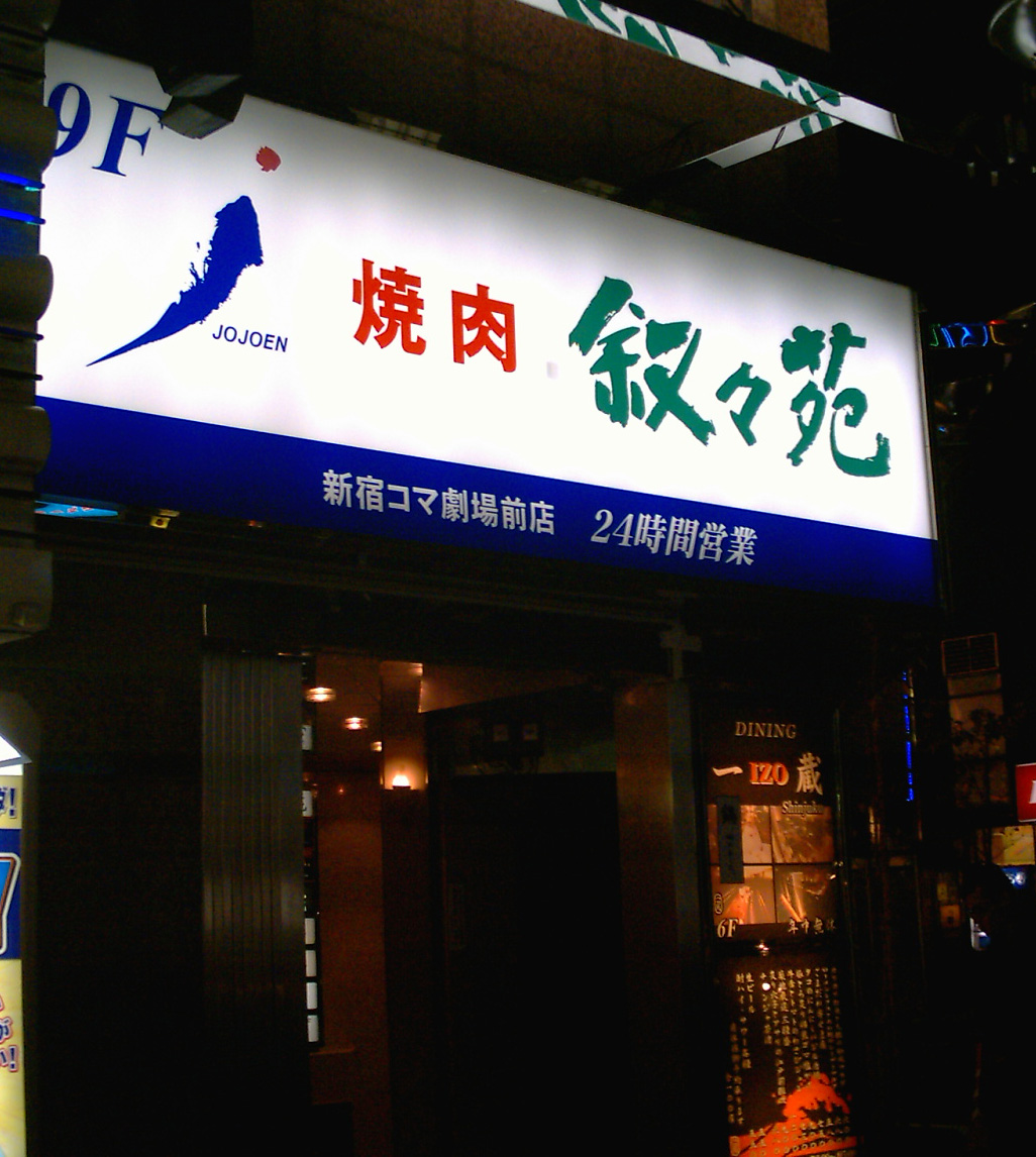 Jojoen Yakiniku Restaurant Japan photography day, 2006/11/14 photography person Kici